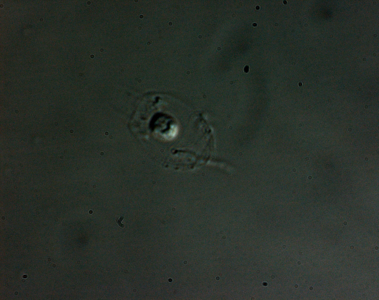 Diaphanoeca grandis (100xPhase)